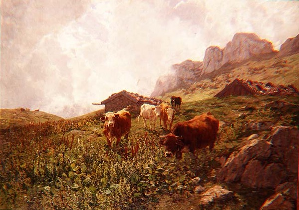 Cattle in an Alpine Landscape